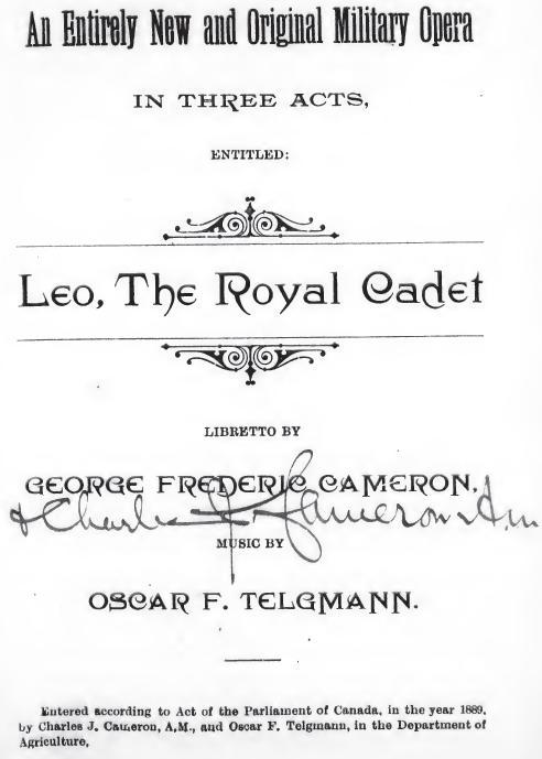 Title page of Oscar Ferdinand Telgmann's 1889 opera Leo, the Royal Cadet; based on Royal Military College of Canada